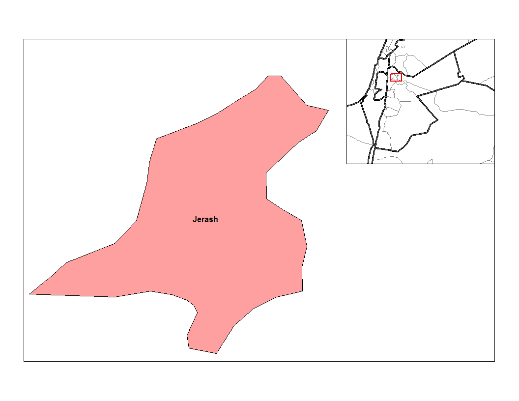 Map of the nahias of Jerash governorate in Jordan. Created by Rarelibra 21:04, 27 December 2006 (UTC) for public domain use, using MapInfo Professional v8.5 and various mapping resources.